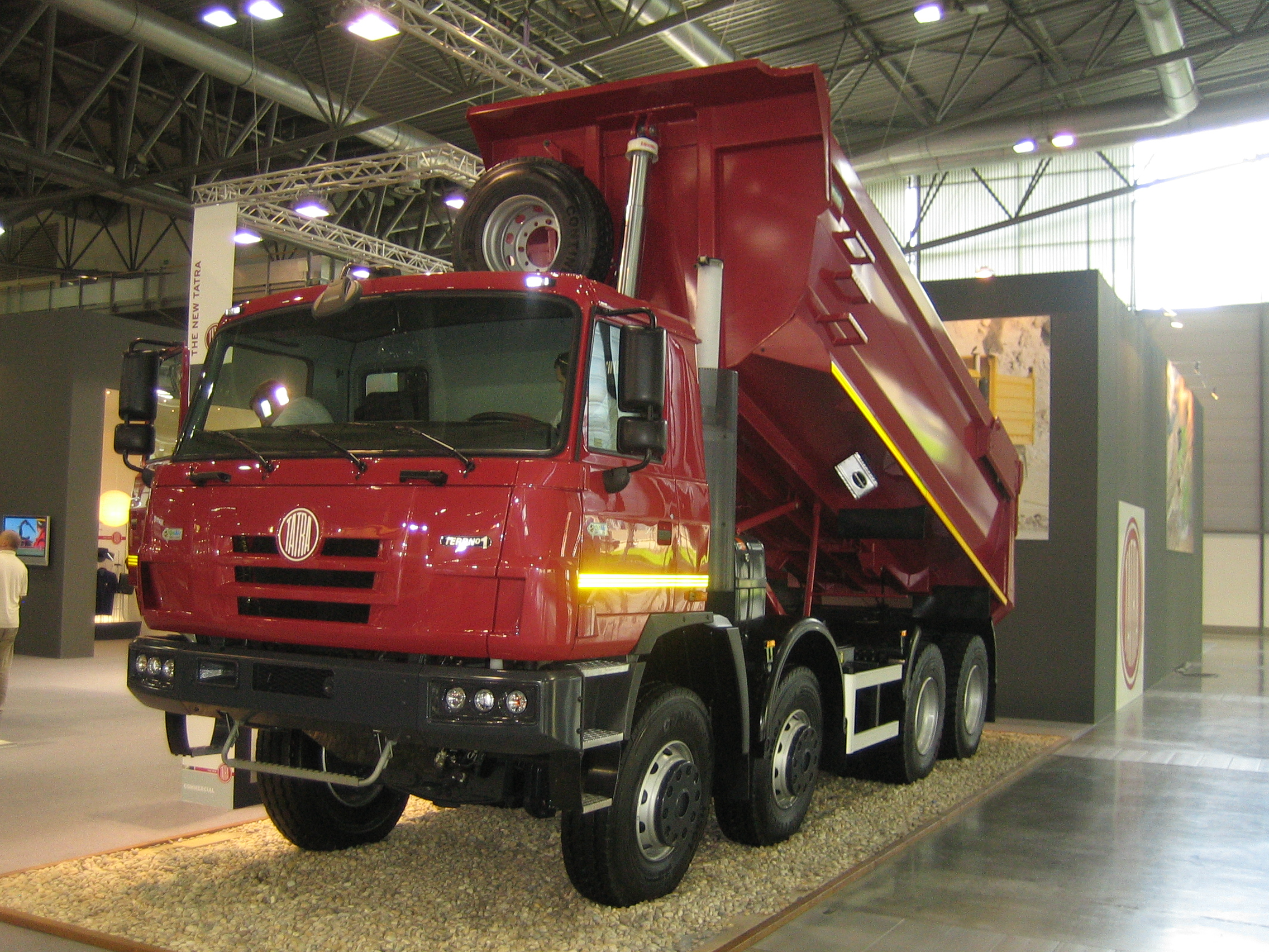 Tatra 815 Terrno2 2010 model at Autotec Brno